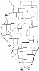 Category:Illinois city locator maps